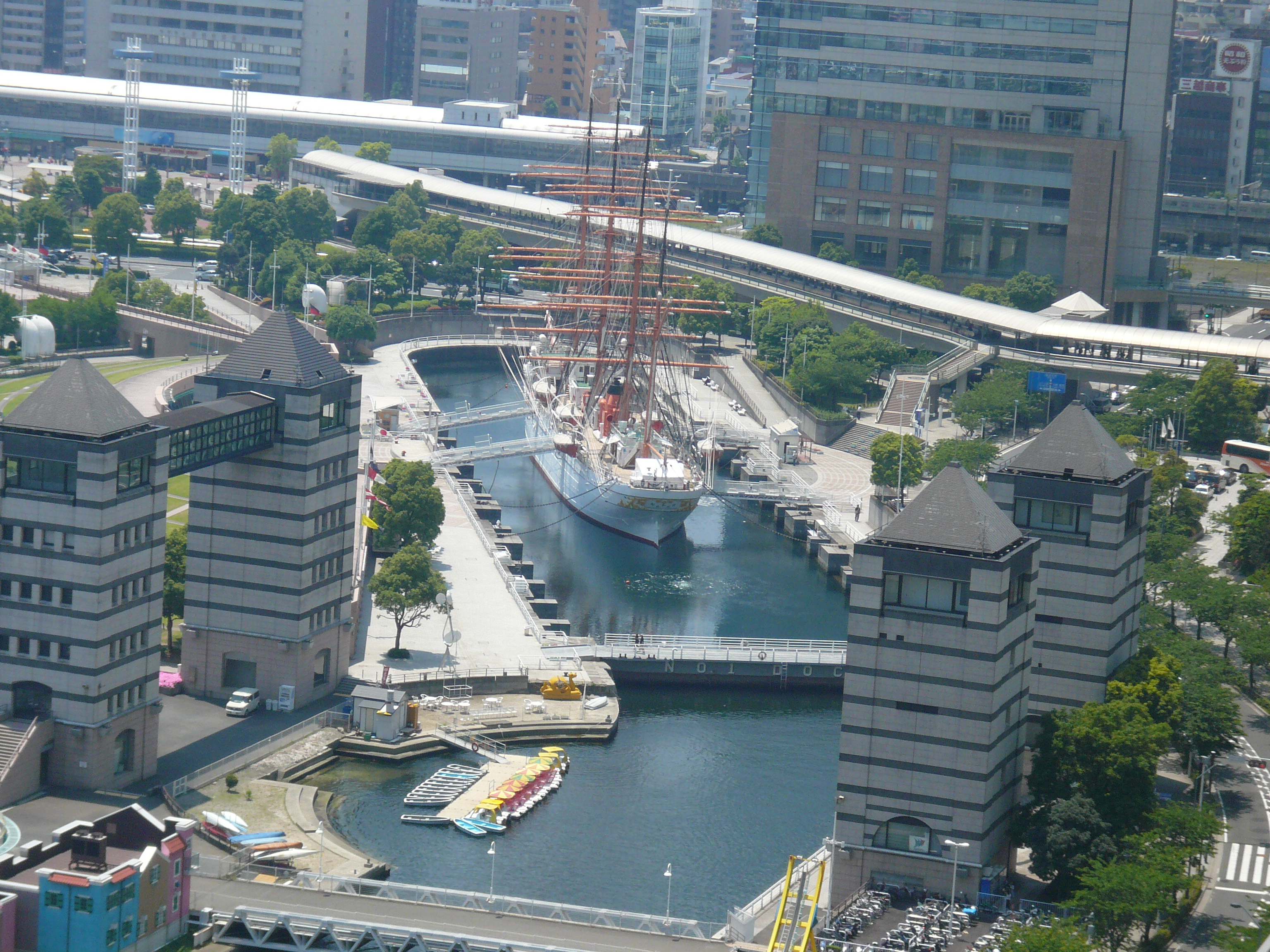 Pan Pasific Bay Hotel